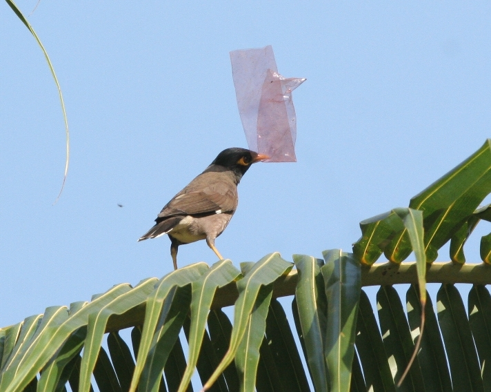 Common Myna Acridotheres tristis holding a piece of plastic in its beak which was later used as nesting material. Photographed in Port Blair, India.